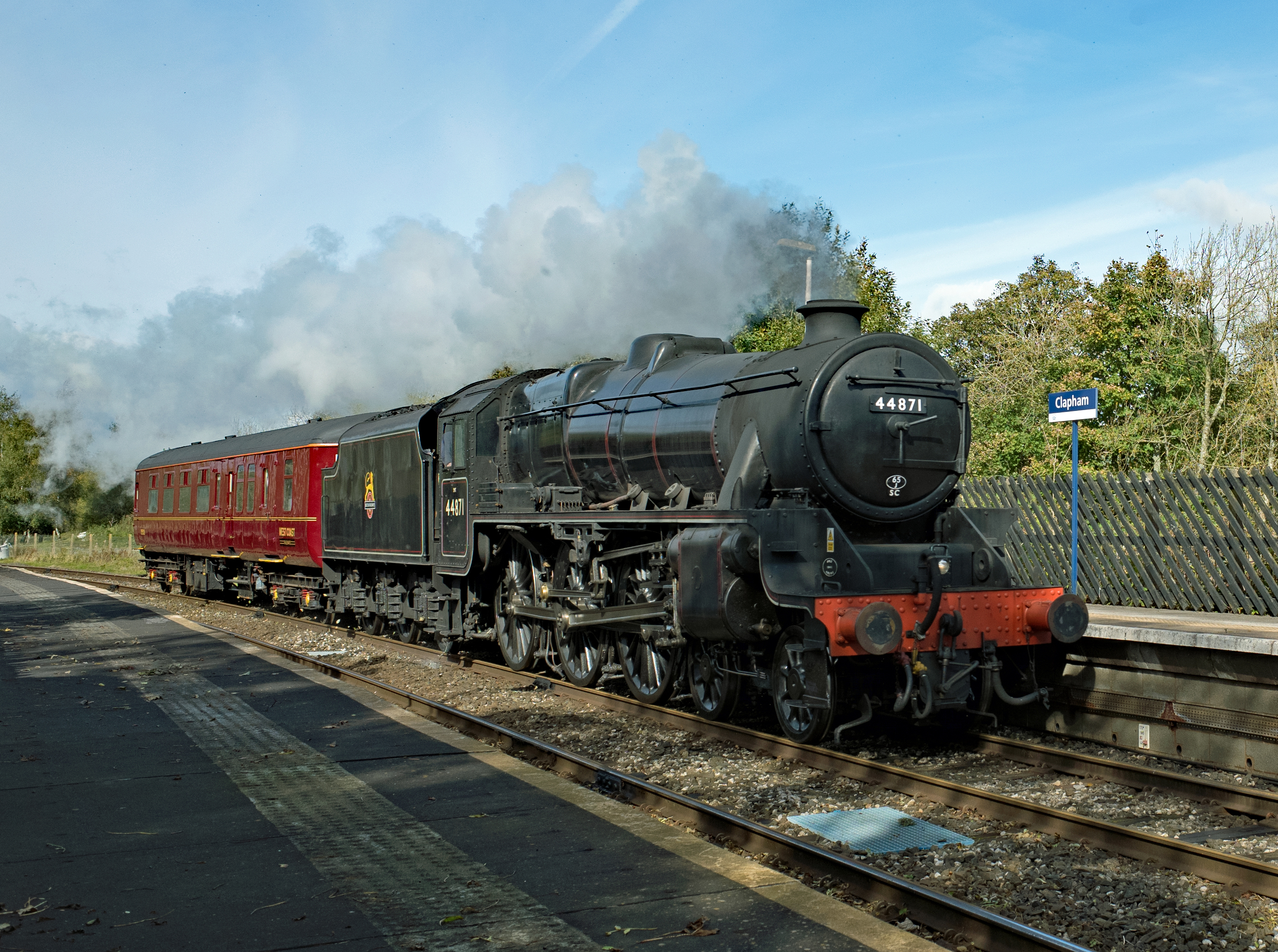 Black Five 44871 heading from Carnforth to Keighley. After a spell on the Jacobite service up in Scotland the locomotive was heading to the KWVR for a short spell.